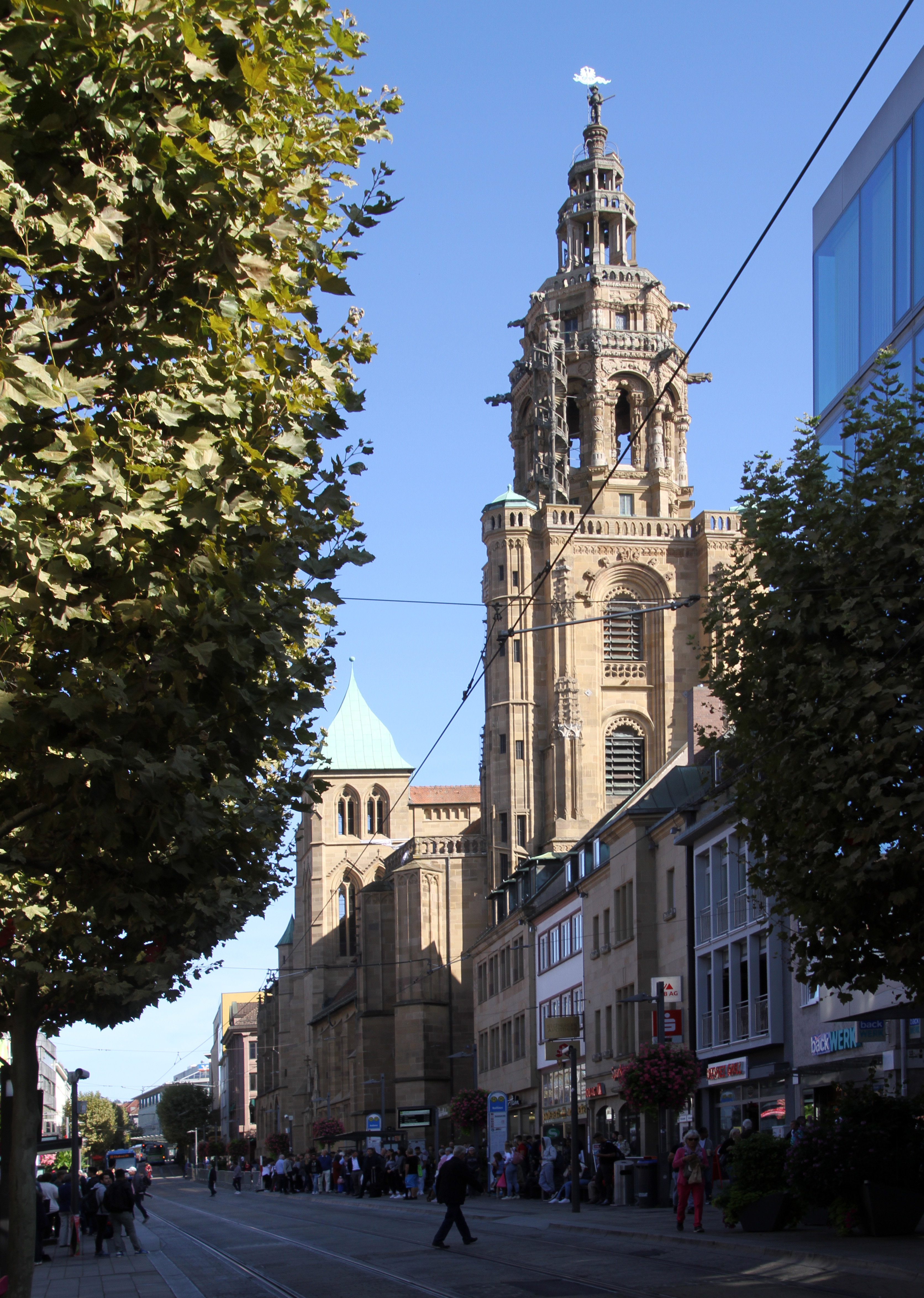 Church of Saint Kilian in Heilbronn.